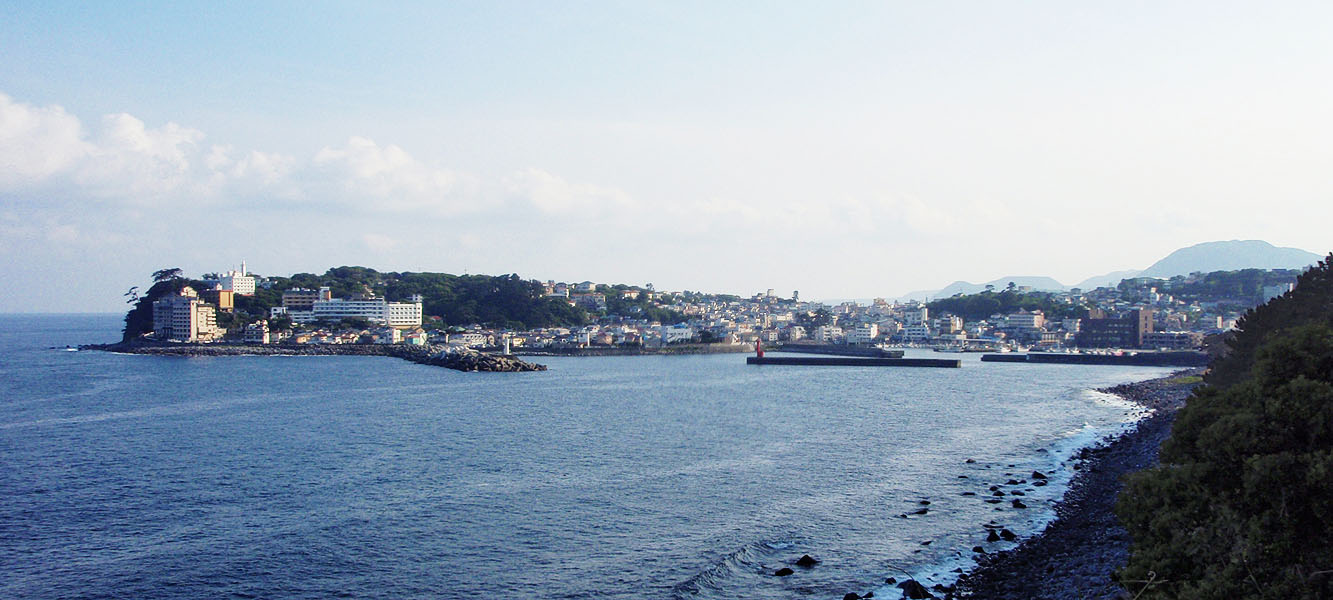 Inatori port & Inatori hot spring resort as seen from the north in Higashiizu, Shizuoka prefecture, Japan.